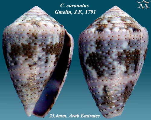 Conus coronatus 3